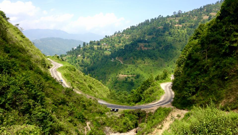 Photo of Dhading District